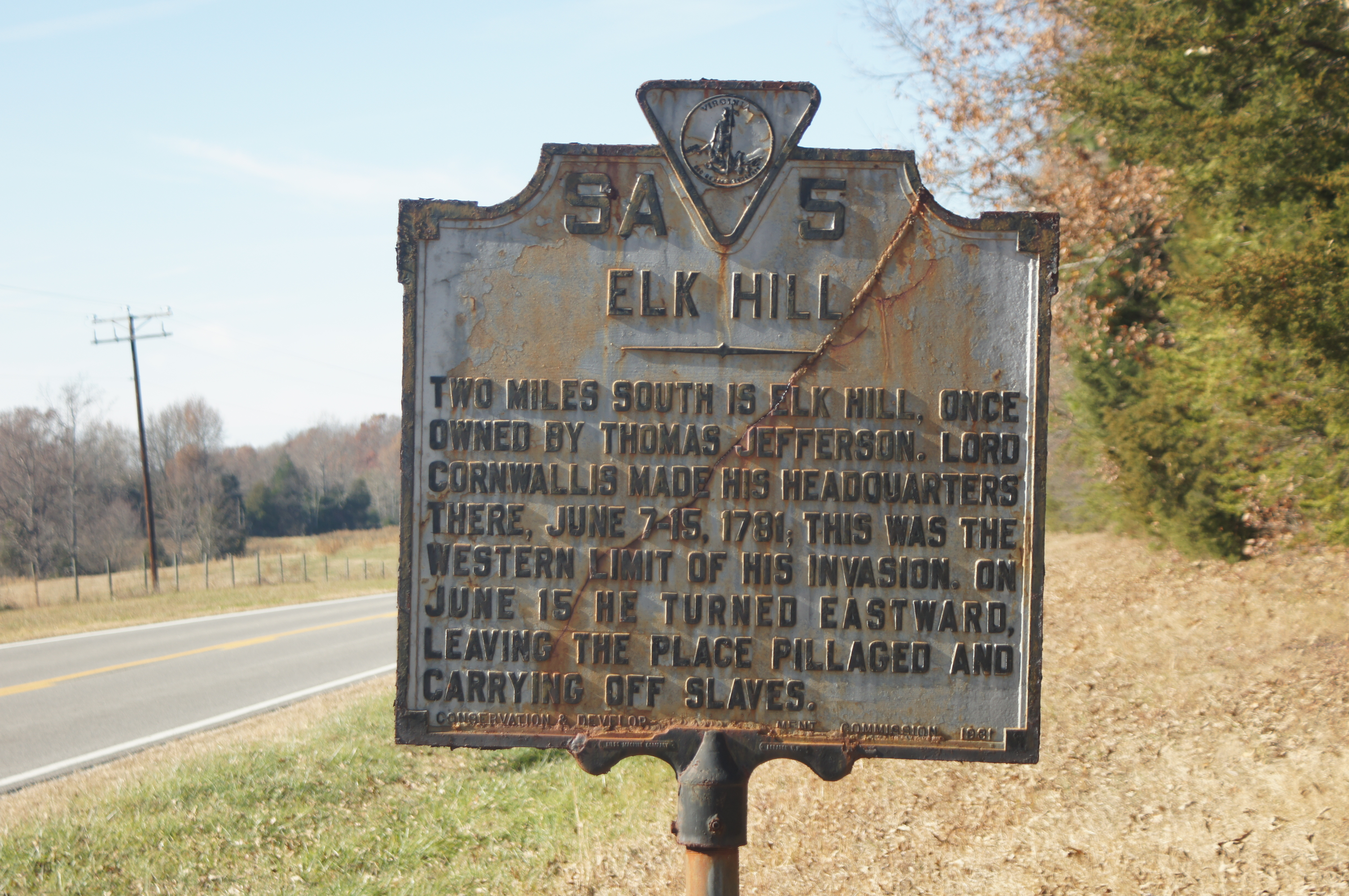 Elk Hill